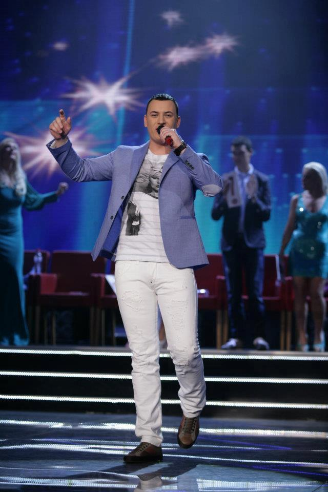 Mirče Radulović in competition Zvezde Granda.